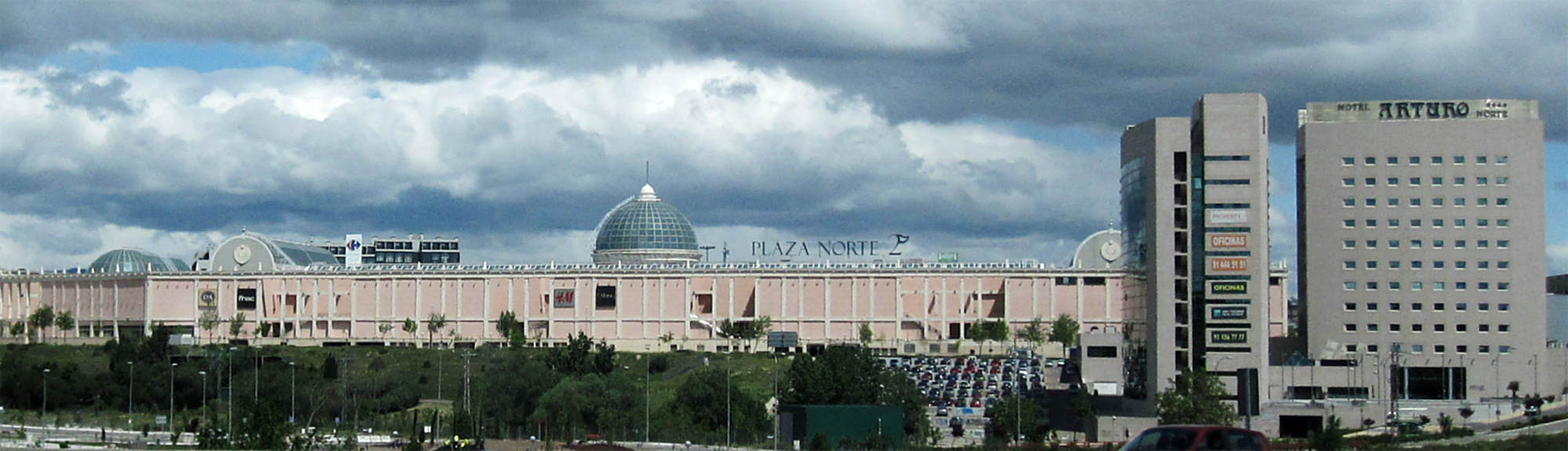 Plaza Norte 2, Commercial centre in north part of Madrid, Spain.